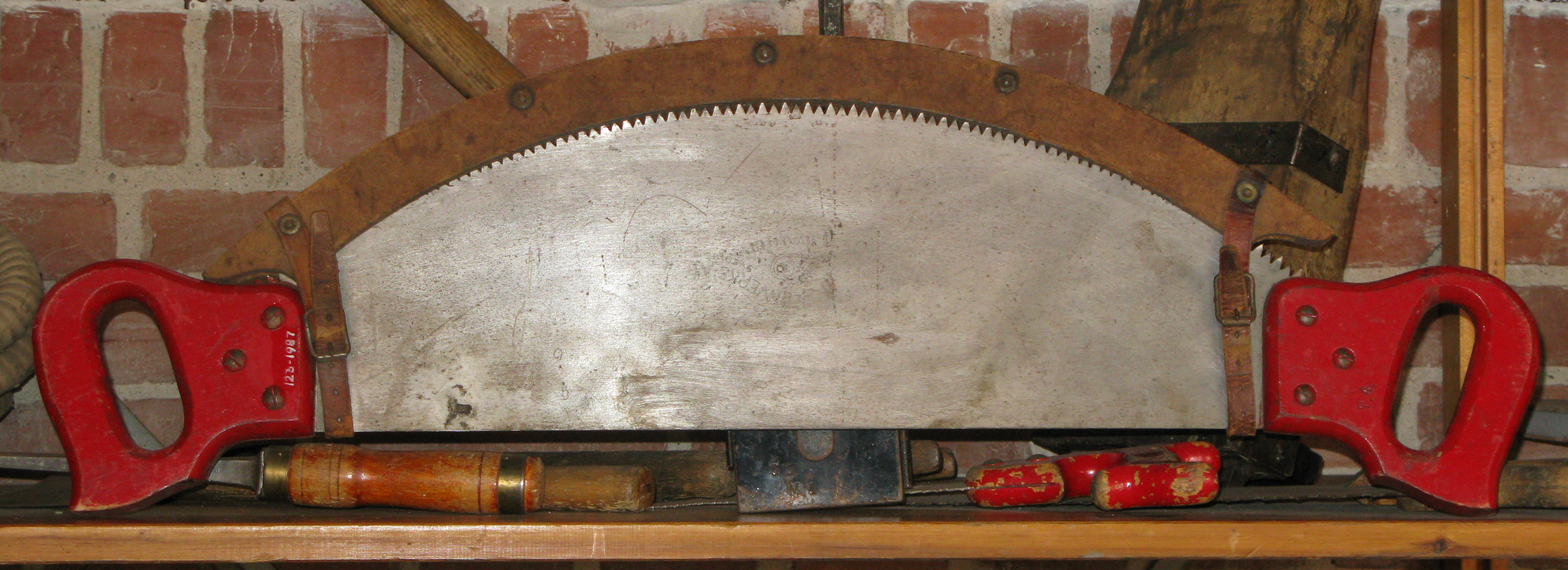 Saw used by the firebrigade when there is fire between stocks